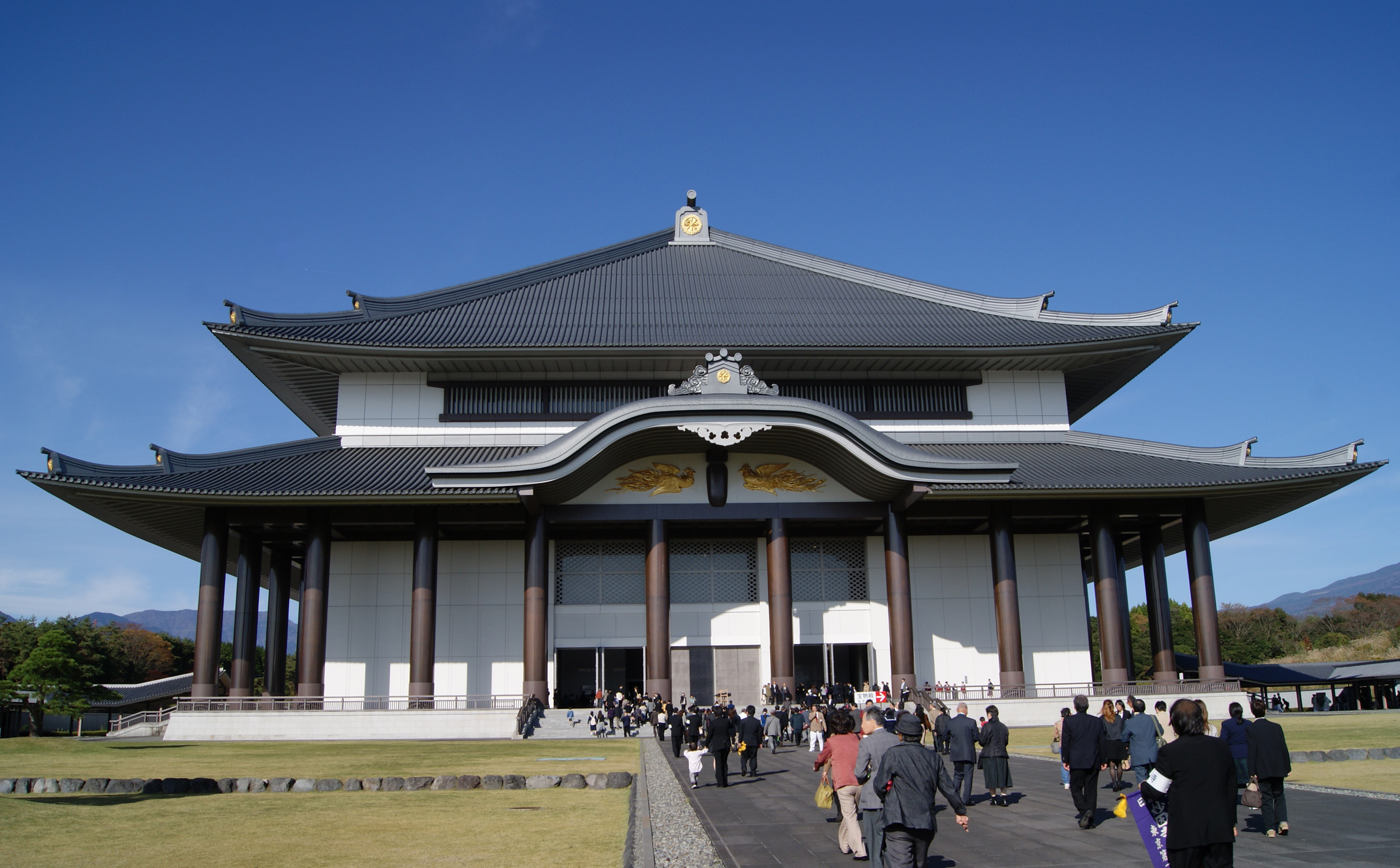 Hōan-dō of Taiseki-ji.jpg